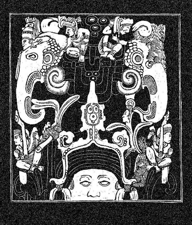 Purported carving of an elephant in Mayan stela B at Copan.